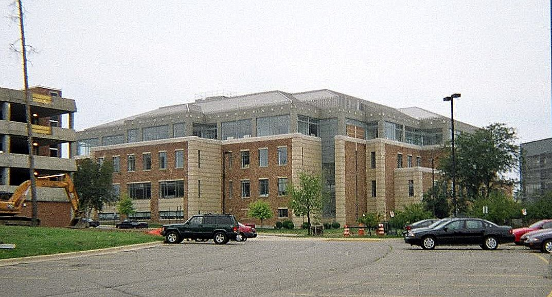 EMU Halle Library from back